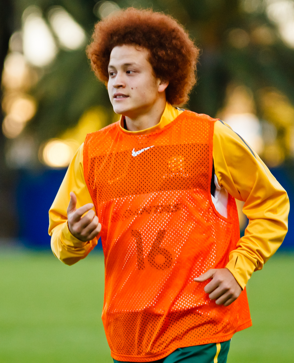 Mustafa Amini warming up for the Australian Olympic Football team in 2011 at Gosford, New South Wales.